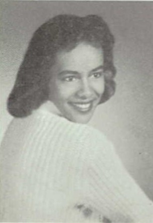 Marilyn McCoo in 1960 school yearbook